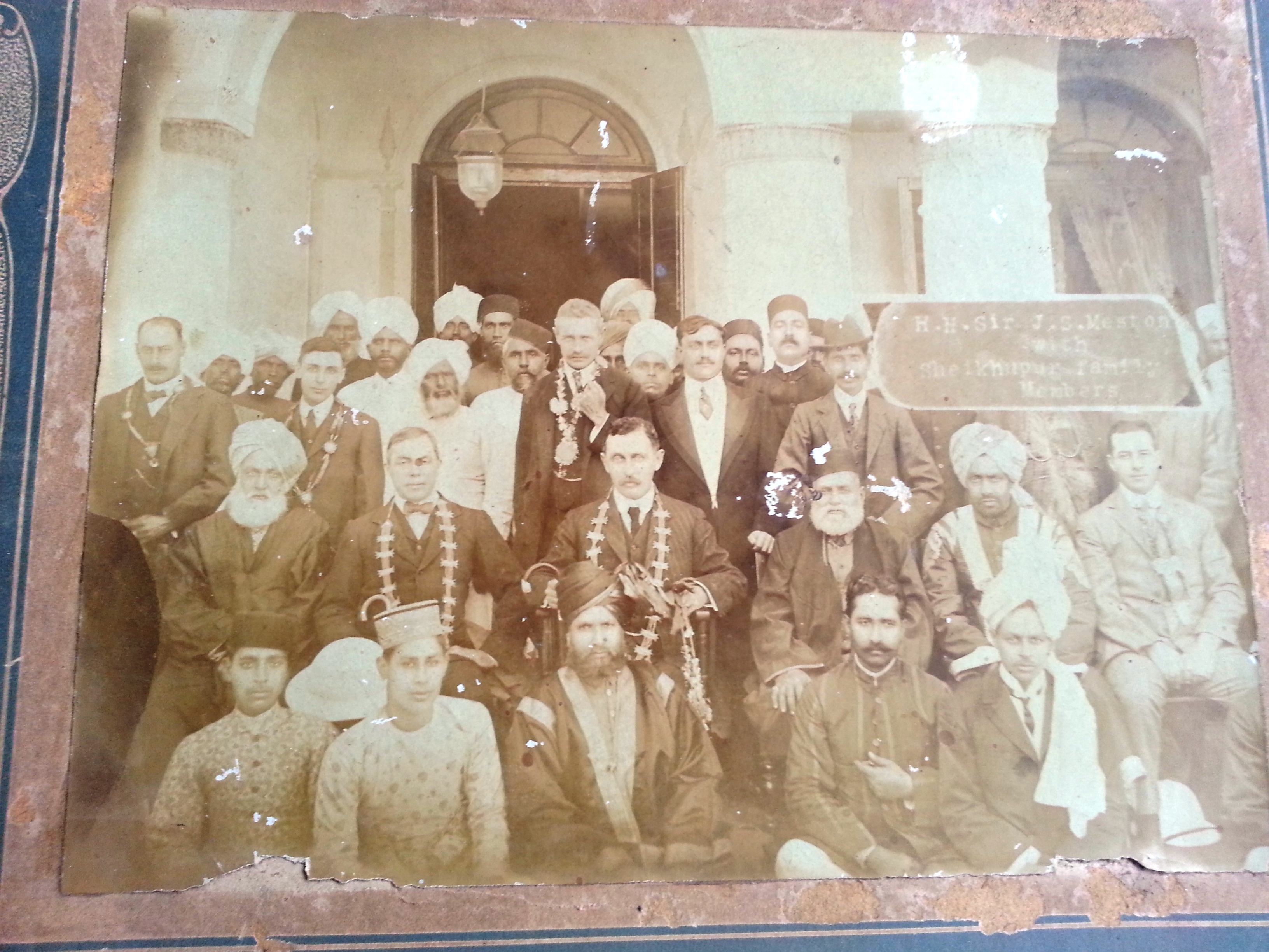 The photo shows the visit of HH Lord Sir James Meston, 1st Baron Meston, who served as the Lieutenant-Governor of the United Provinces of Agra and Oudh, to the left is the family of Nawab Abdul-Ghaffar Khan Bahadur of Sheikhapur. Sir James Meston is seated in the middle, with Nawab Abdul-Ghaffar Khan Bahadur to his left with other family members and household staff with British officers in the foreground and background. The photo is dated late 1800s.